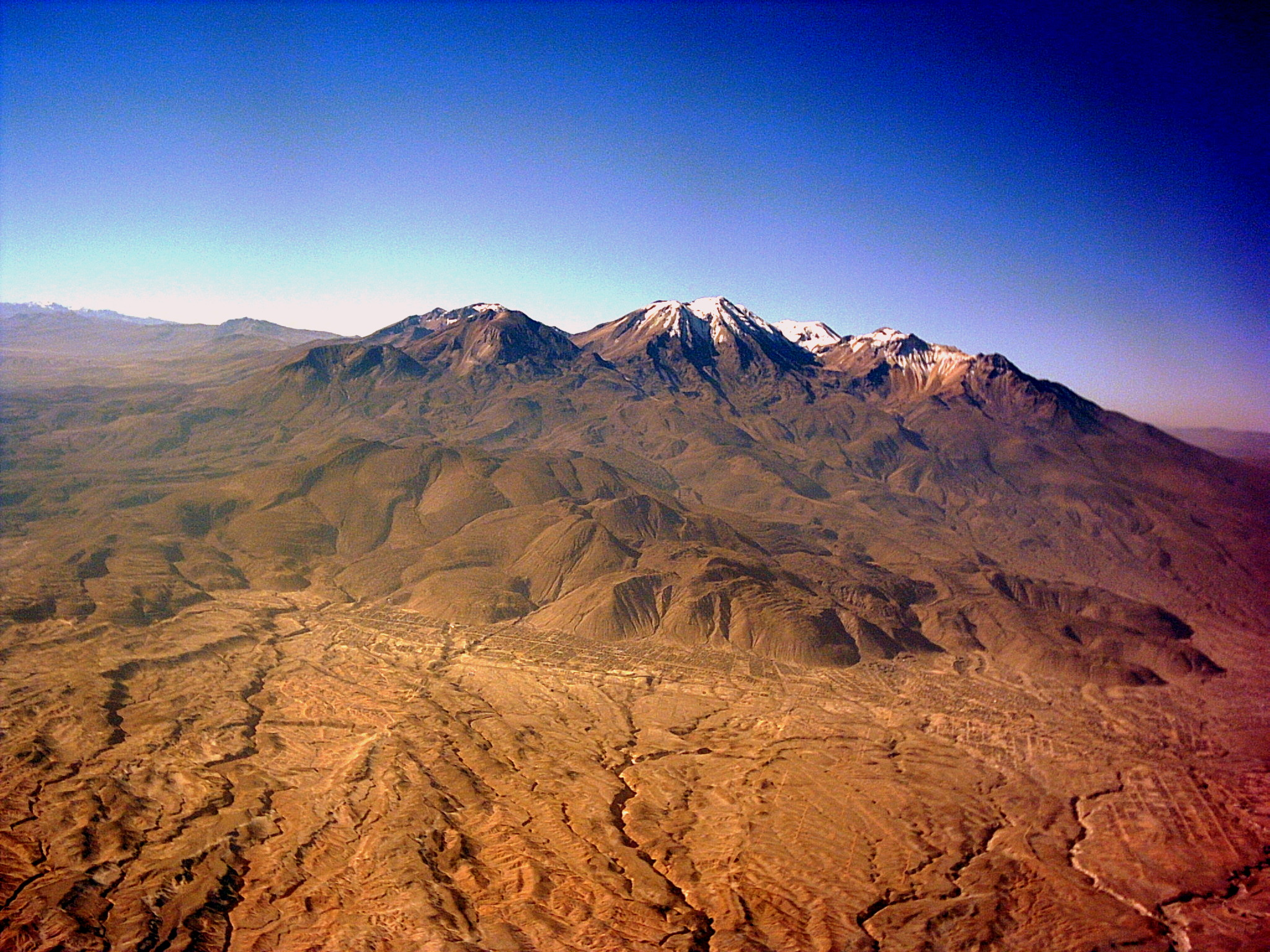 Mount Chachani, in the Arequipa region, Peru, as seen from a commercial flight.